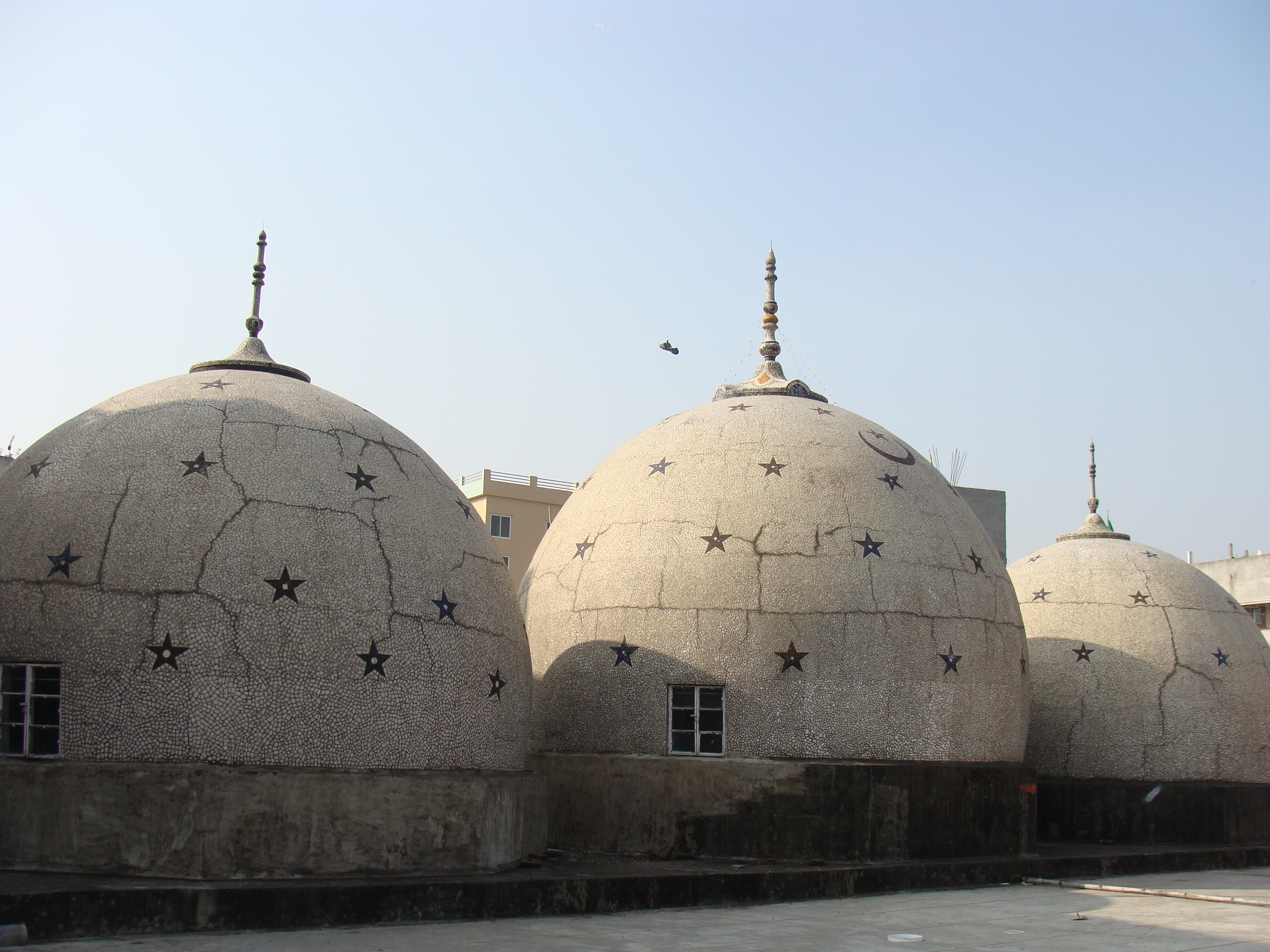 The view of the three domes of the Chawkbazar Shahi Mosque, Dhaka, Bangladesh.